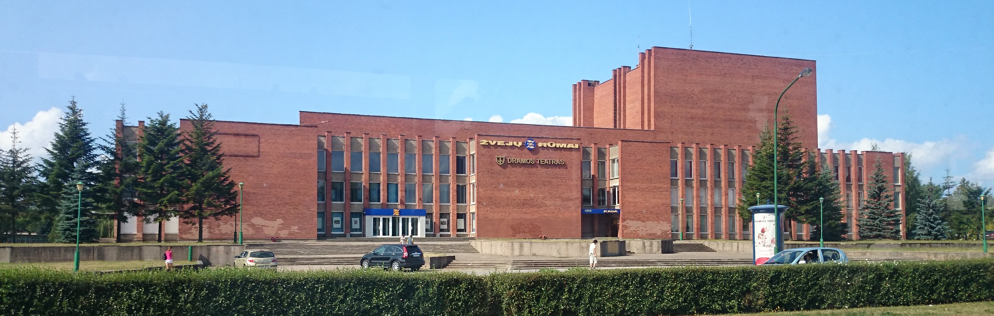 "Fishermens house" at Taikos prospektas in Klaipėda